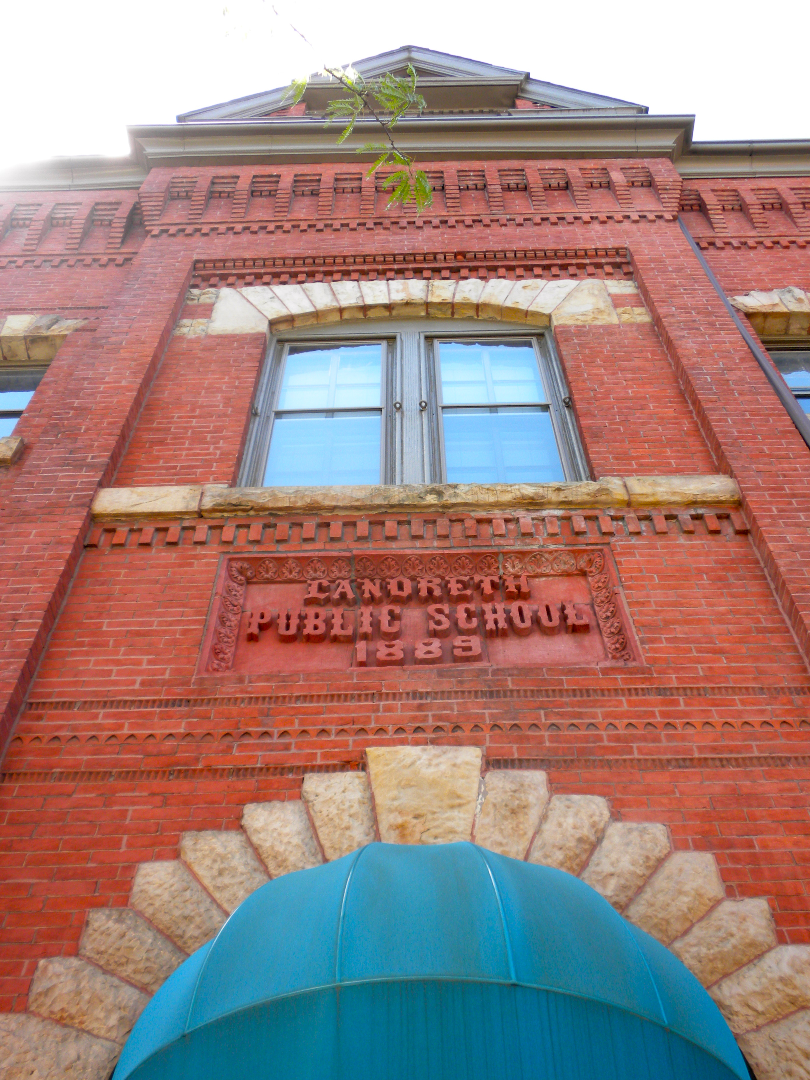 David Landreth School on the NRHP since December 4, 1986. At 1201 South 23rd Street in the Point Breeze neighborhood of South Philadelphia